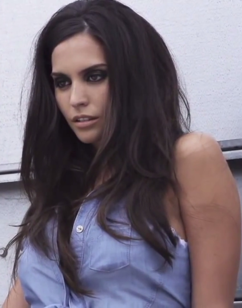 American actress Genesis Rodriguez in a photo shoot for Complex magazine.